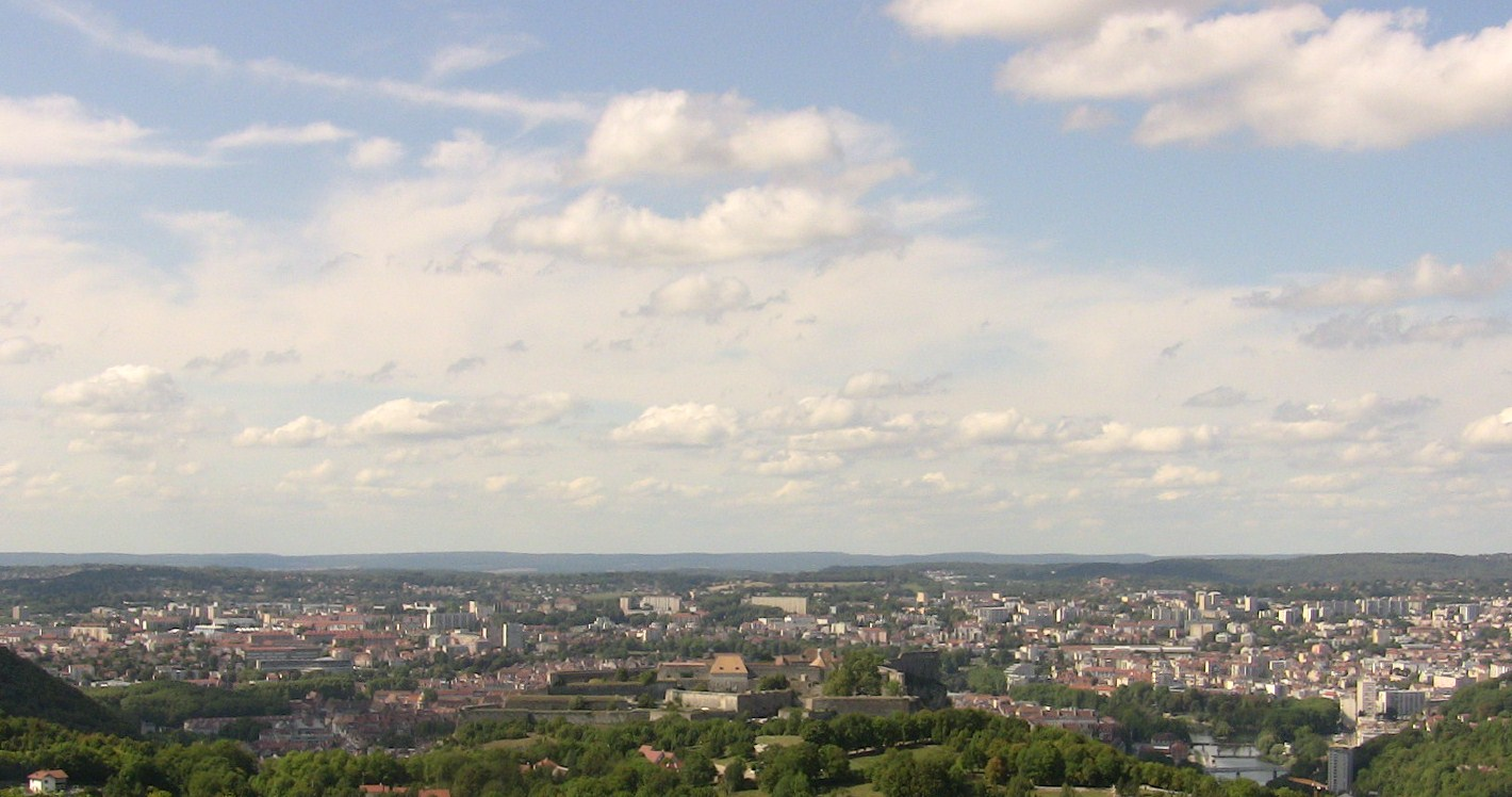 View of Besançon from the church of Buis (Doubs, France)